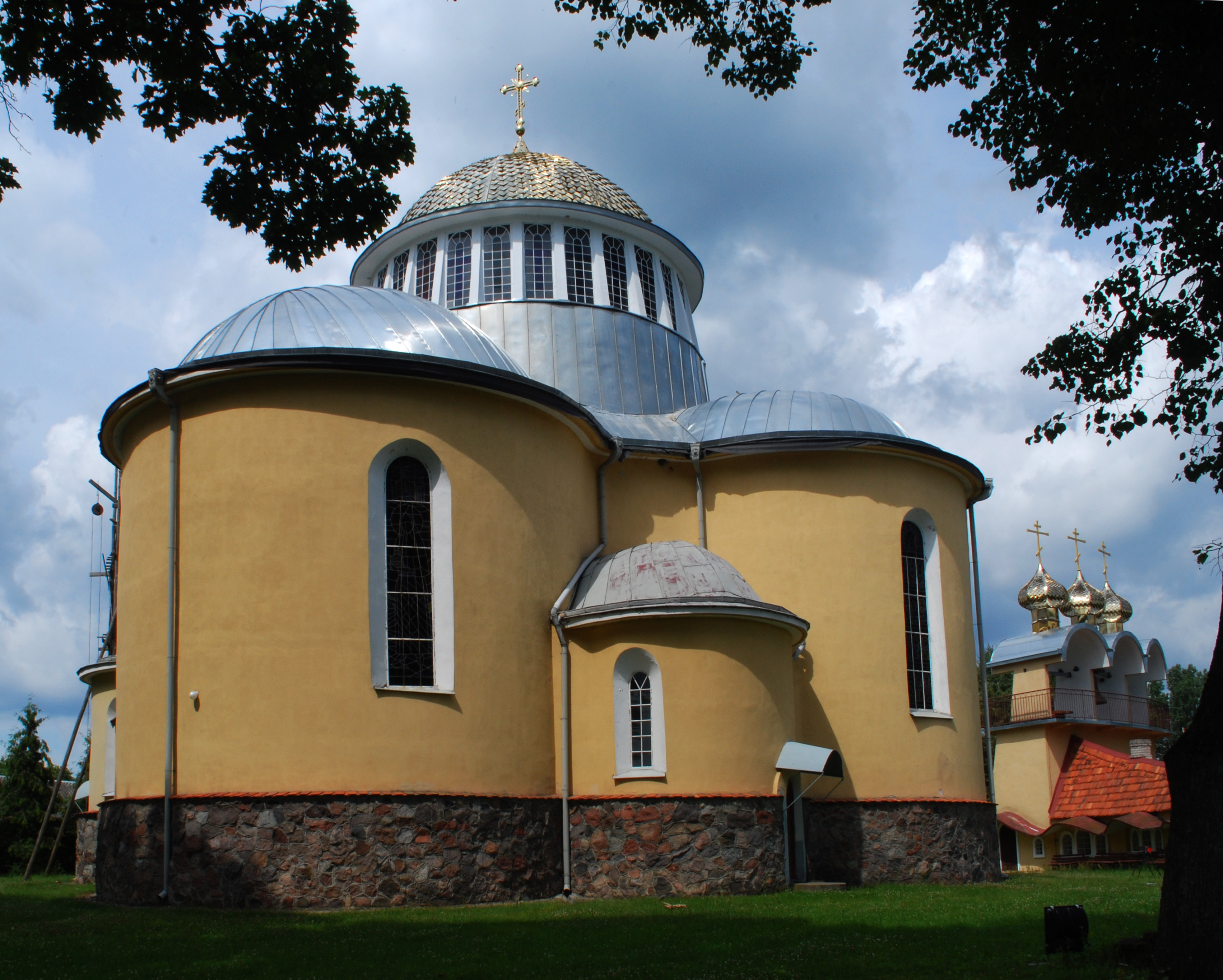 This photo from Podlaskie Voievodeship was taken during Polish Wikiexpedition 2009 set up by Wikimedia Polska Association. The making of this document was supported by Wikimedia Polska. Cerkiew w Jałówce, Gmina Michałowo.